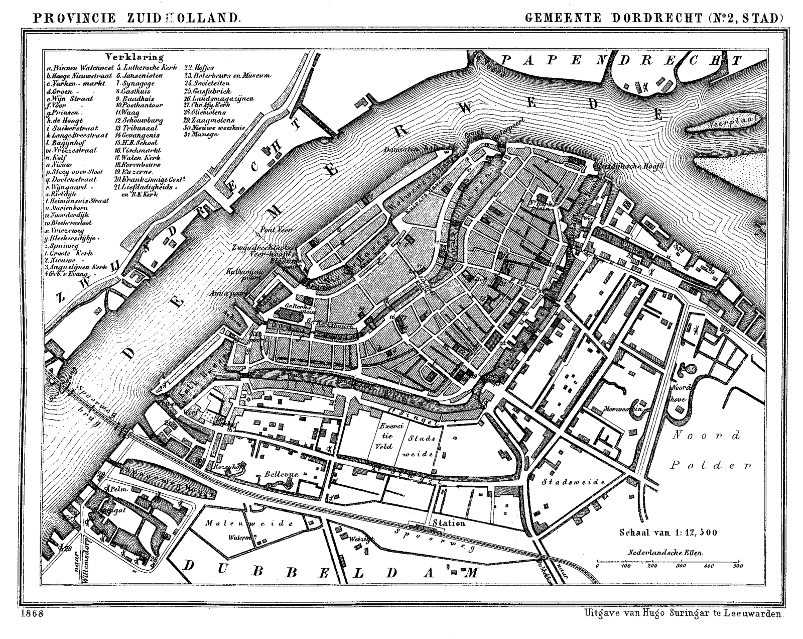 Historic map of Dordrecht, the Netherlands